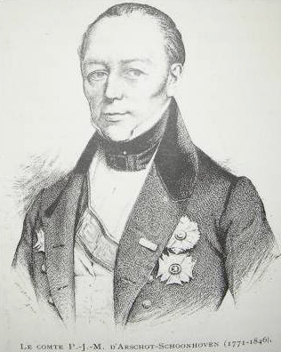 Philippe d'Arschot de Schoonhoven